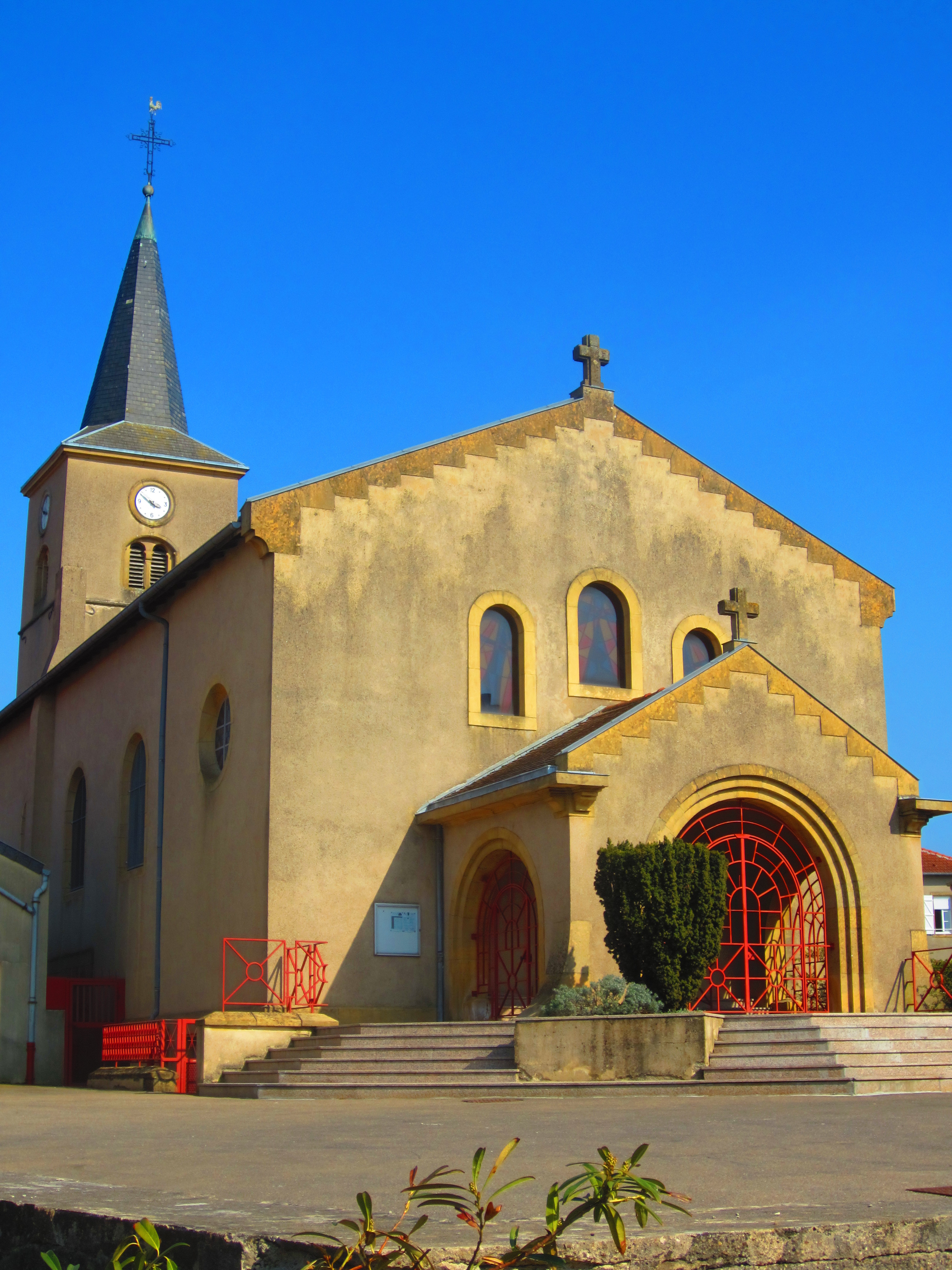 Ste Marie Chenes church